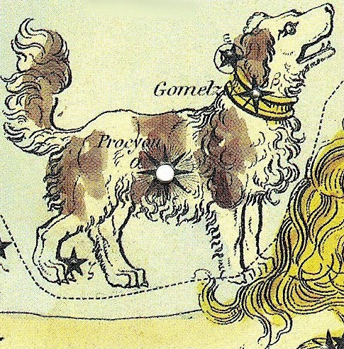 Canis minor by Samuel Leigh